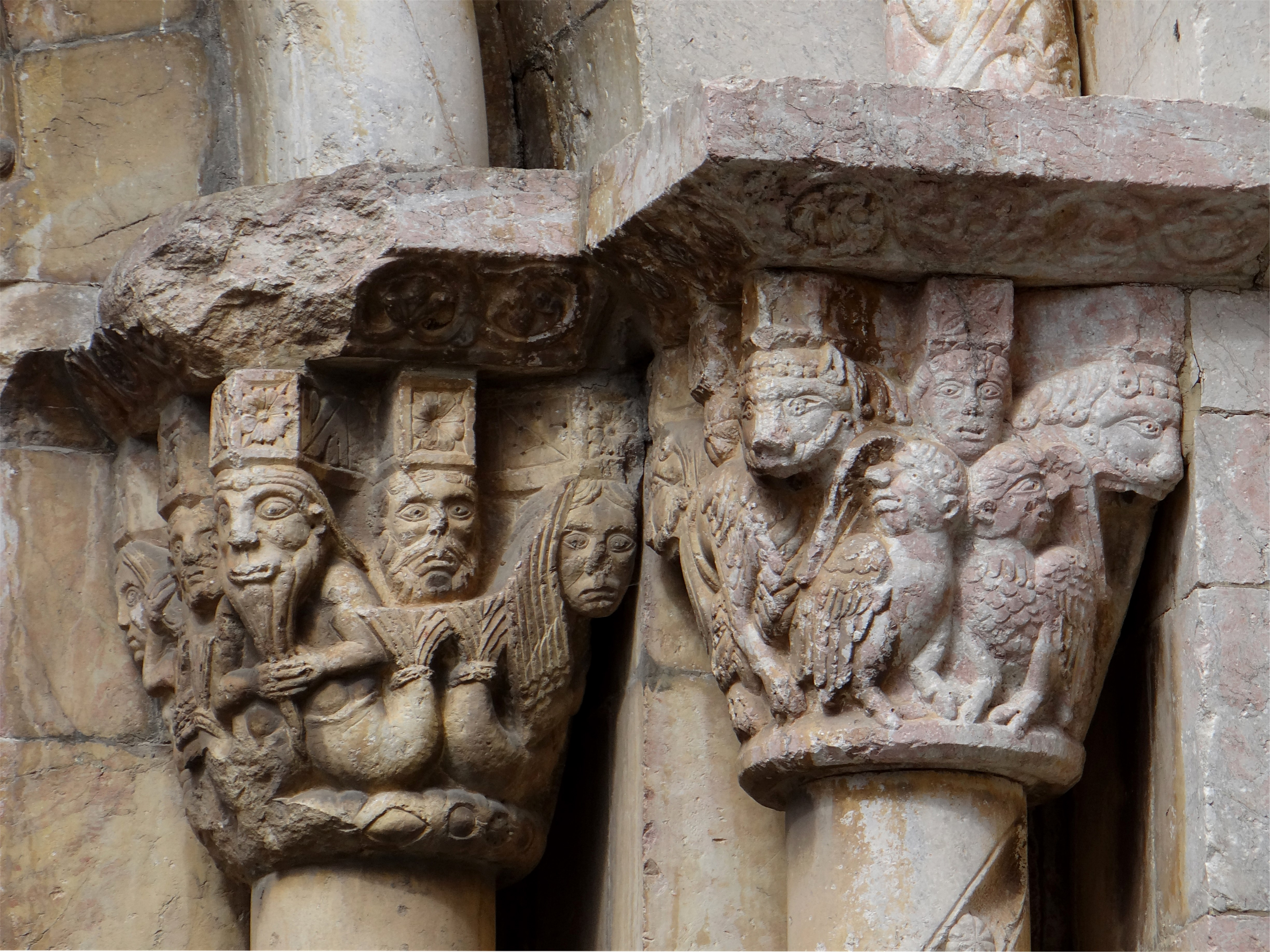 Church of the Assumption of the Virgin, Toulouges, Pyrenees-Orientales, France. Details of the capitals of the south side door.